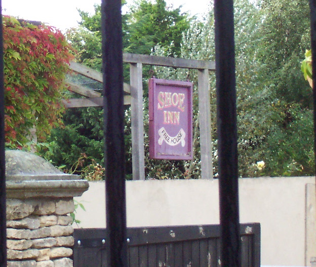 View of The Shoe inn sign, now in a private garden.